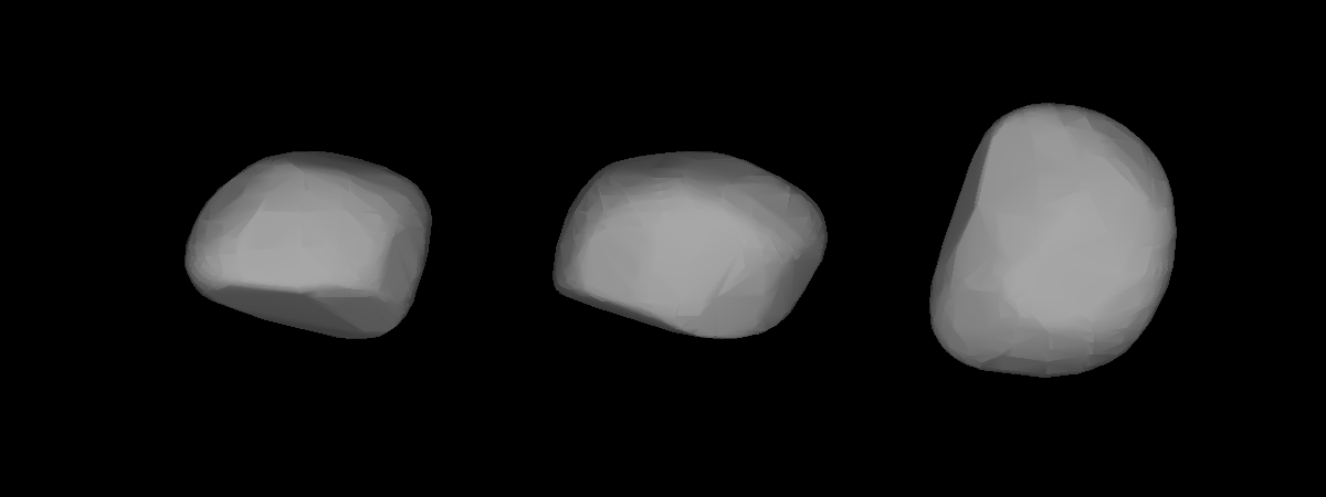 A three-dimensional model of 532 Herculina that was computed using light curve inversion techniques.